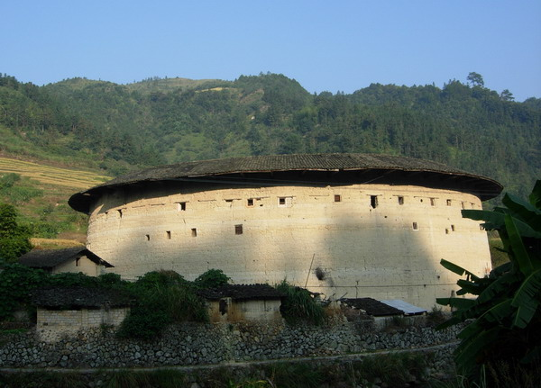 earth building